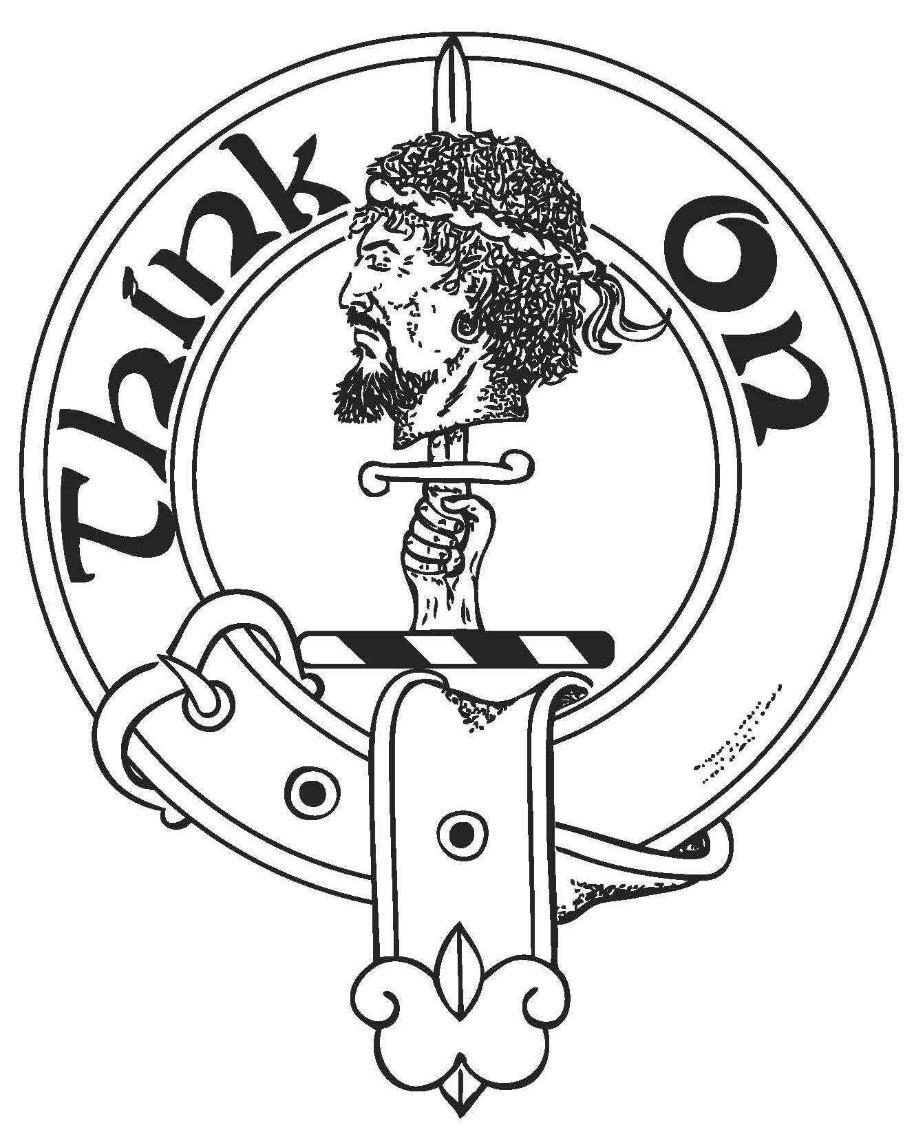 CLAN MACLELLAN